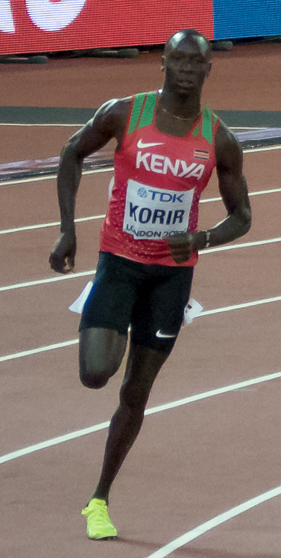 Runners at the 2017 Athletics World Championships at the Queen Elizabeth Olympic Park in Stratford PERMISSION TO USE: Please check the licence for this photo on Flickr. If the photo is marked with the Creative Commons licence, you are welcome to use this photo free of charge for any purpose including commercial. I am not concerned with how attribution is provided - a link to my flickr page or my name is fine. If used in a context where attribution is impractical, that's fine too. I enjoy seeing where my photos have been used so please send me links, screenshots or photos where possible. If the photo is not marked with the Creative Commons licence, only my friends and family are permitted to use it.